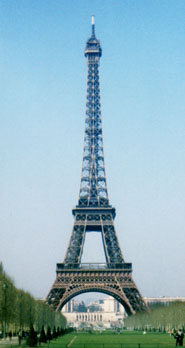 Photographed by Brion Vibber, placed into the public domain. Bild:Eiffeltornet.jpg